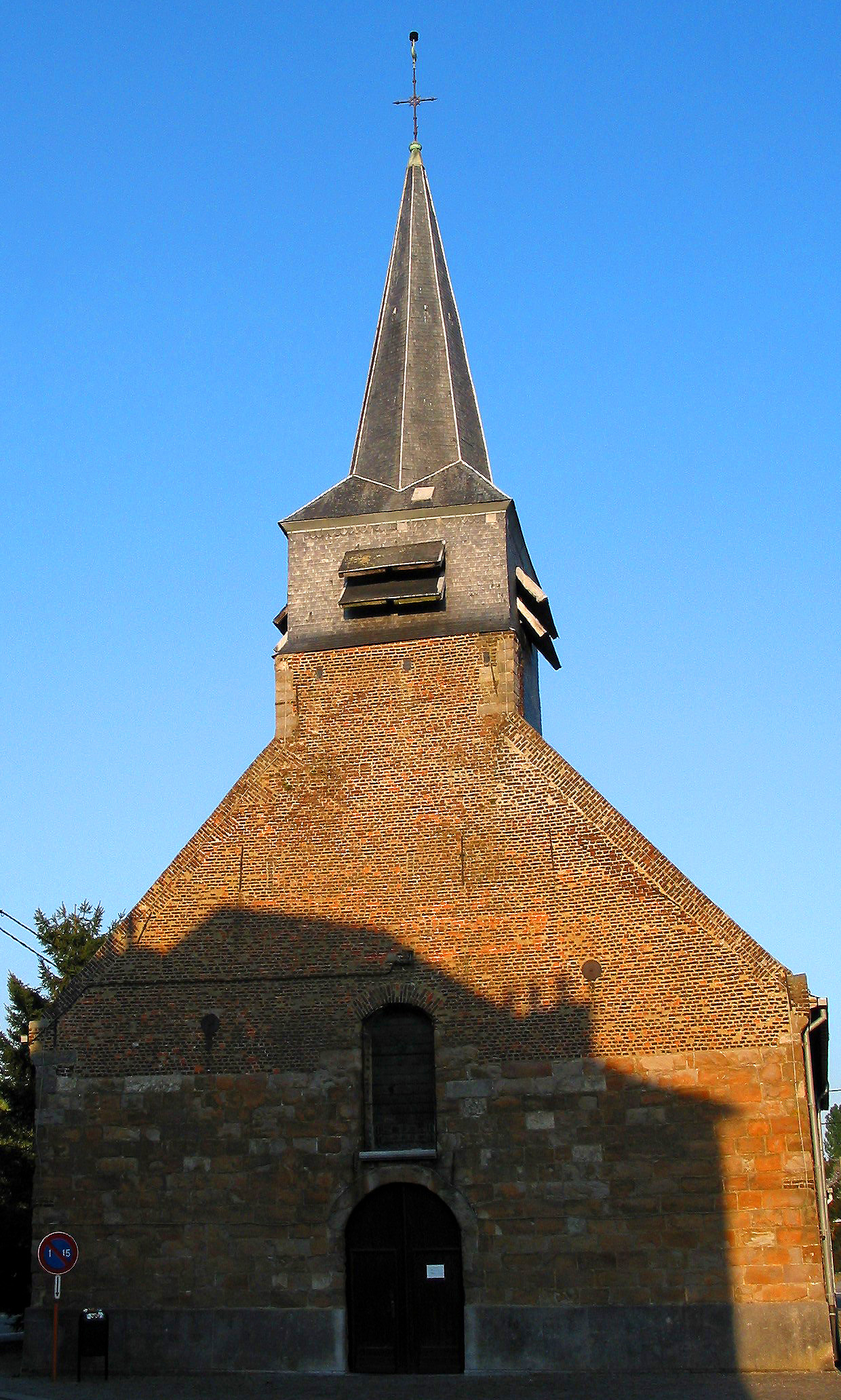 Eugies Belgium, the Saint Remy church.